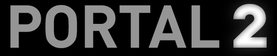 Portal 2's logotype.